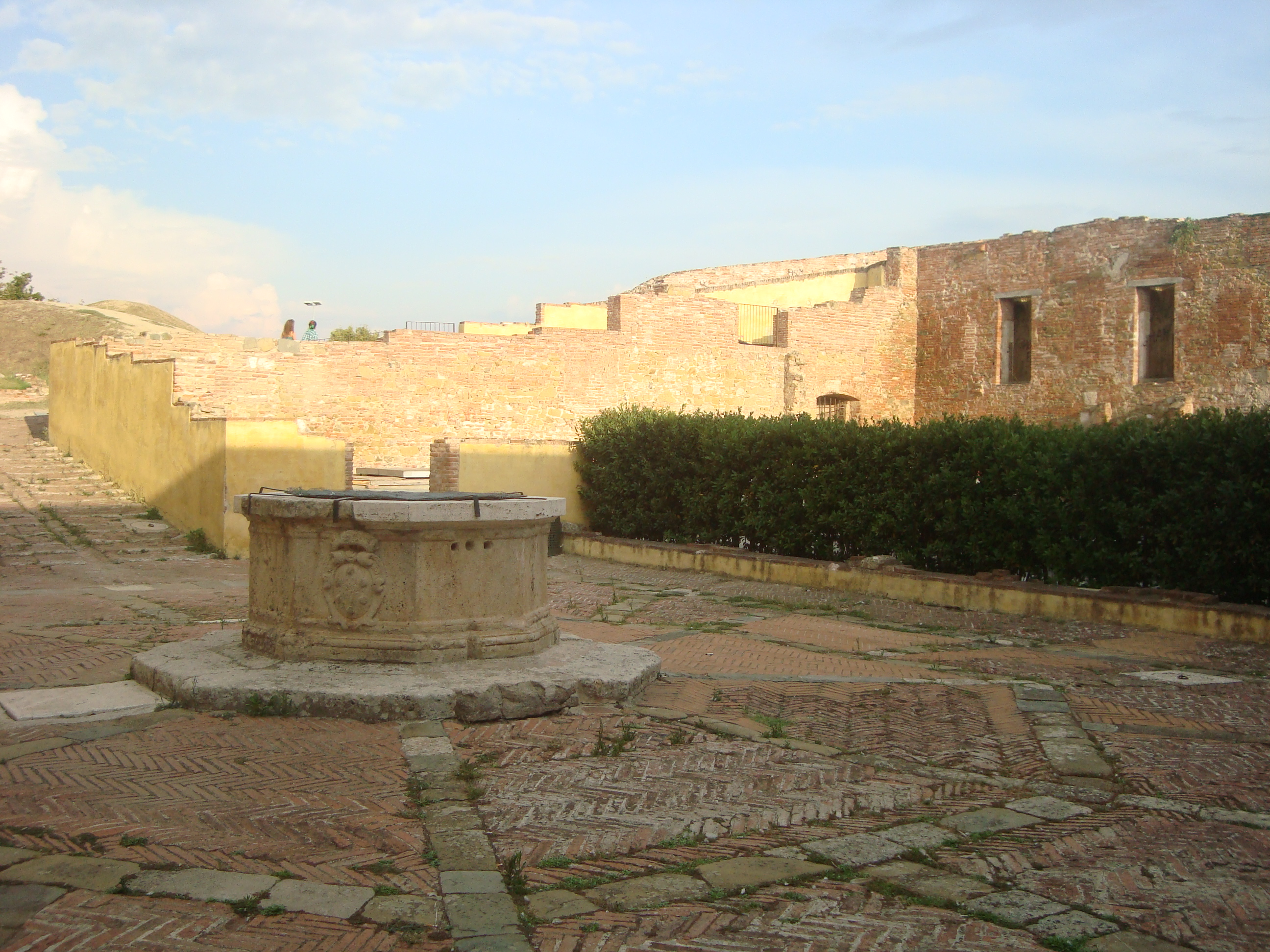 Piazza d'Armi in Grosseto